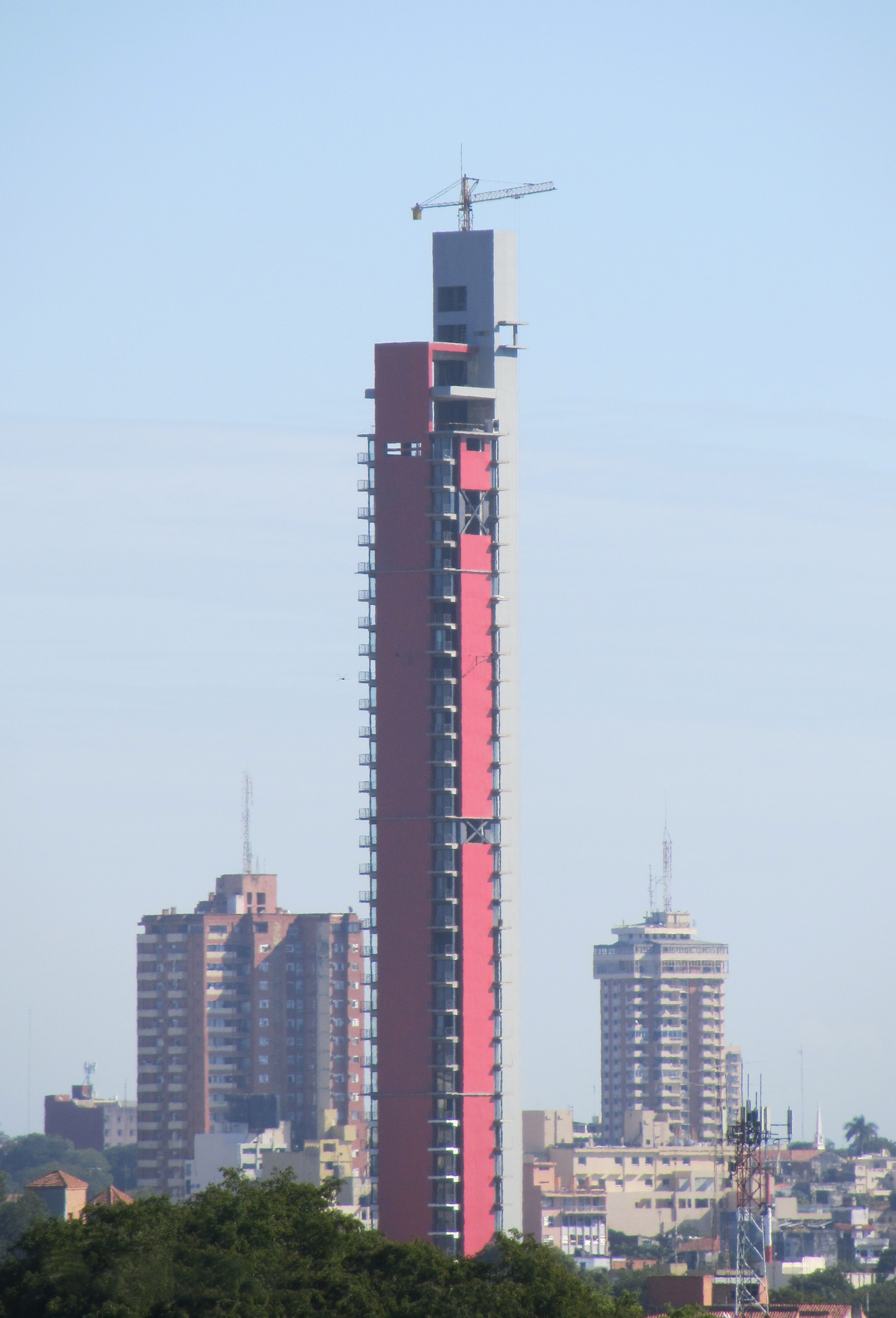 Edificio Ícono en Asunción del Paraguay